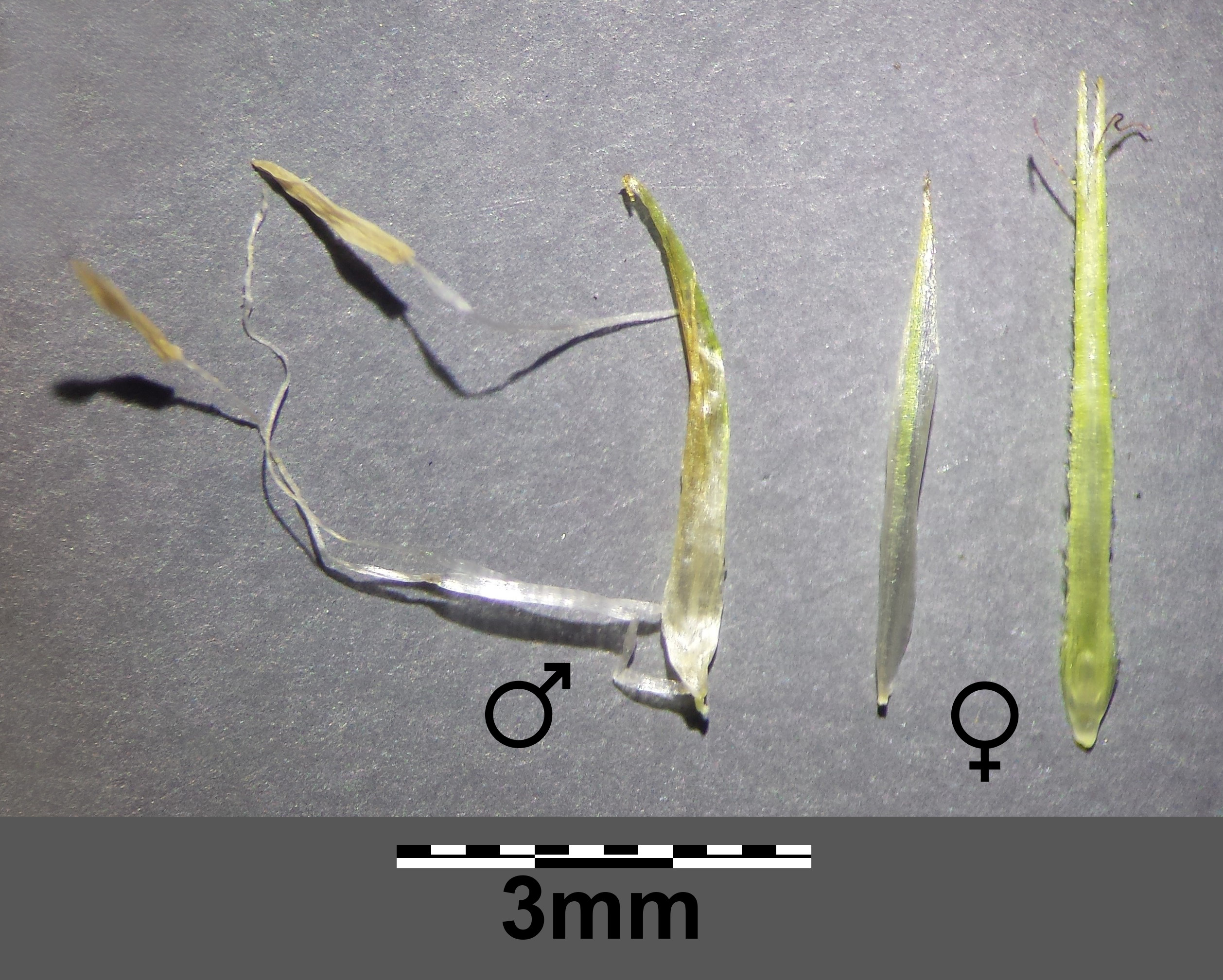 Flower Left: male flower with bract Right: female flower (bract and utriculus) Taxonym: Carex bohemica ss Fischer et al. EfÖLS 2008 ISBN 978-3-85474-187-9 Location: Žárský rybník, Jihočeský kraj, Czech Republic - ca. 500 m a.s.l. Habitat: ground of a pond